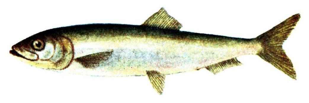 Clupea harengus